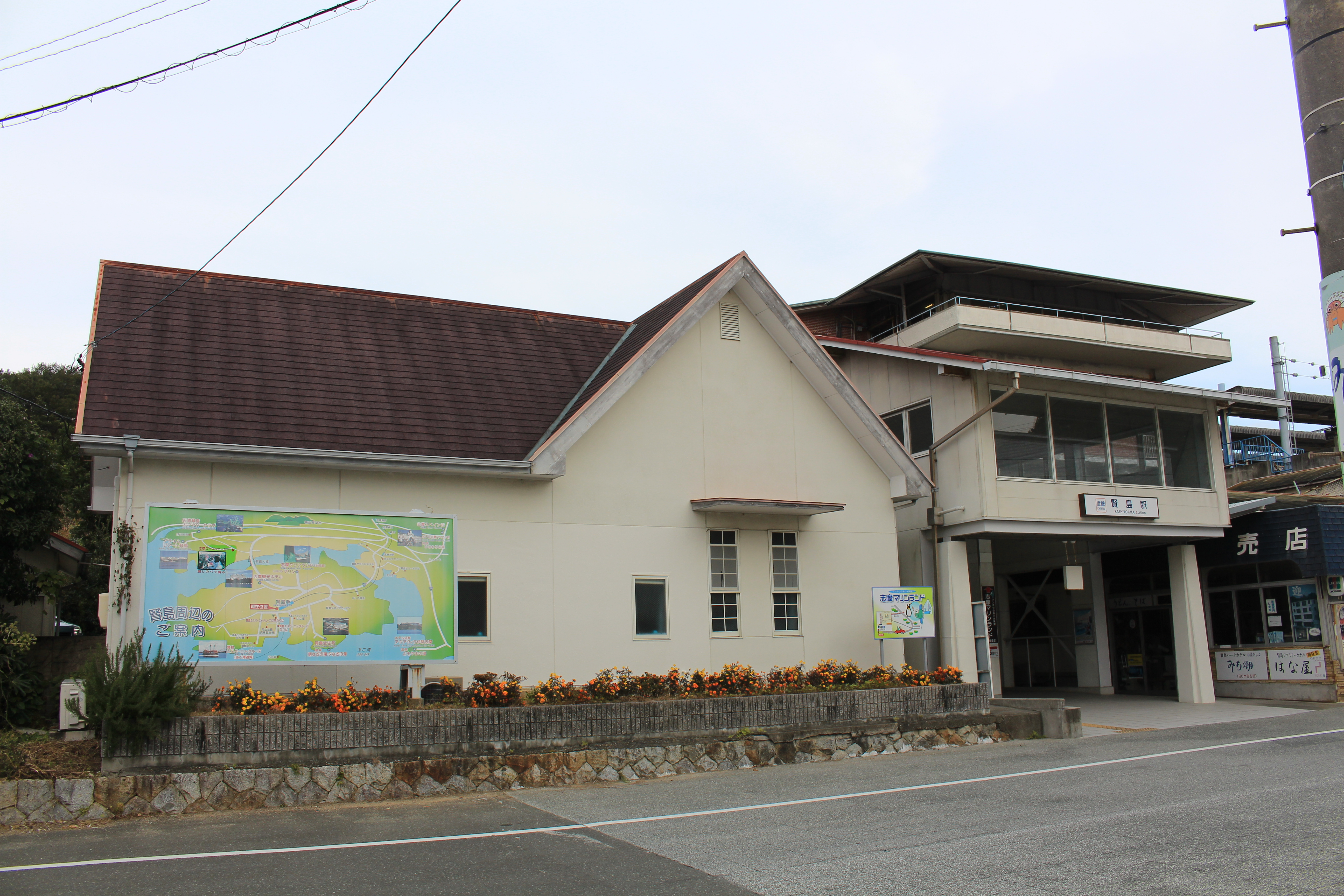 Kashikojima Station, in Shima, Mie prefecture, Japan.